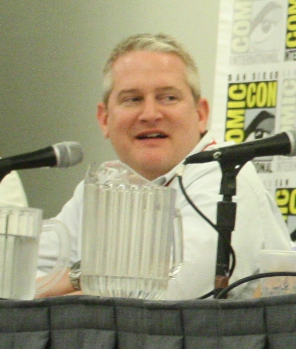 Image cropped from original on Flickr. Original image was taken at San Diego ComicCon, and consisted of Adam Reed, H. Jon Benjamin, Chris Parnell, Aisha, Archer